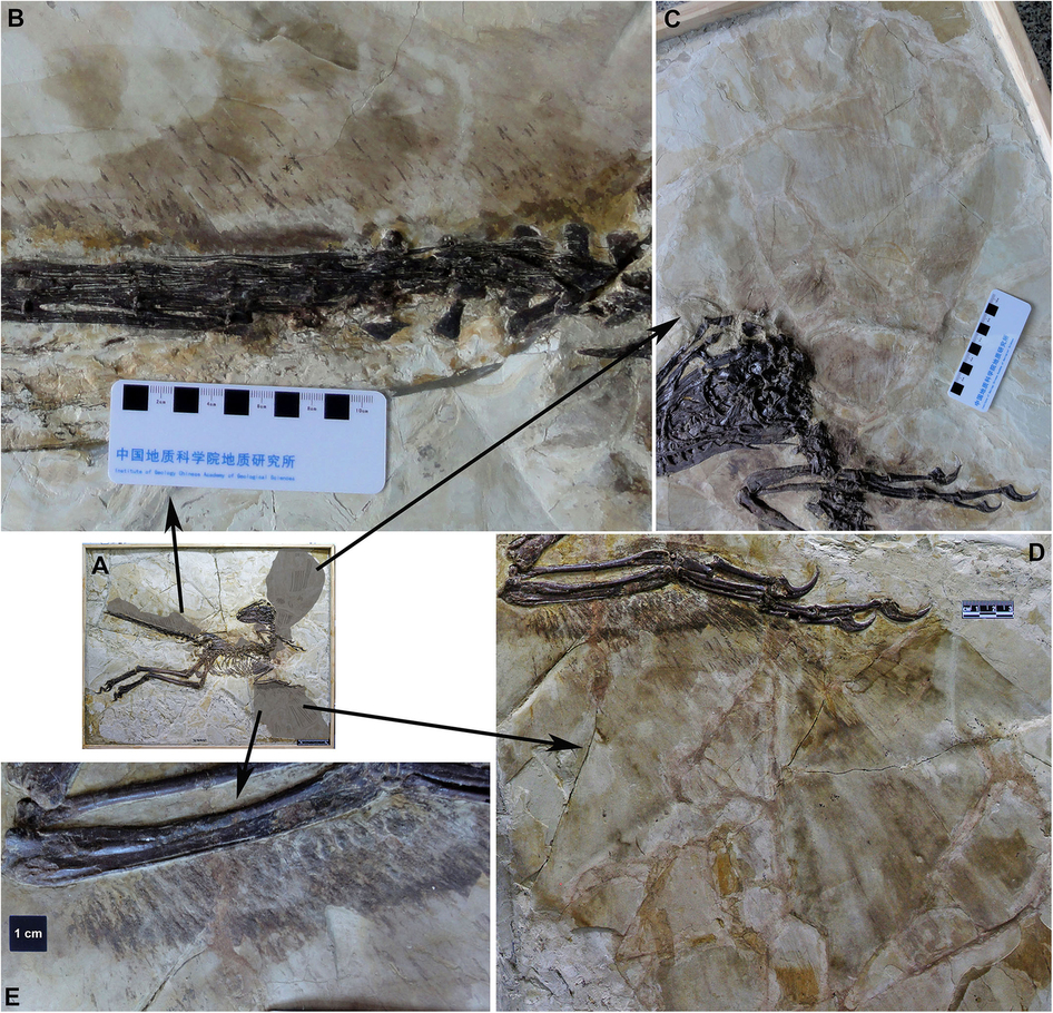 The holotype of the large-bodied, short-armed Liaoning dromaeosaurid Zhenyuanlong suni gen et. sp. nov. (JPM-0008). From: "A large, short-armed, winged dromaeosaurid (Dinosauria: Theropoda) from the Early Cretaceous of China and its implications for feather evolution." By Junchang Lü & Stephen L. Brusatte